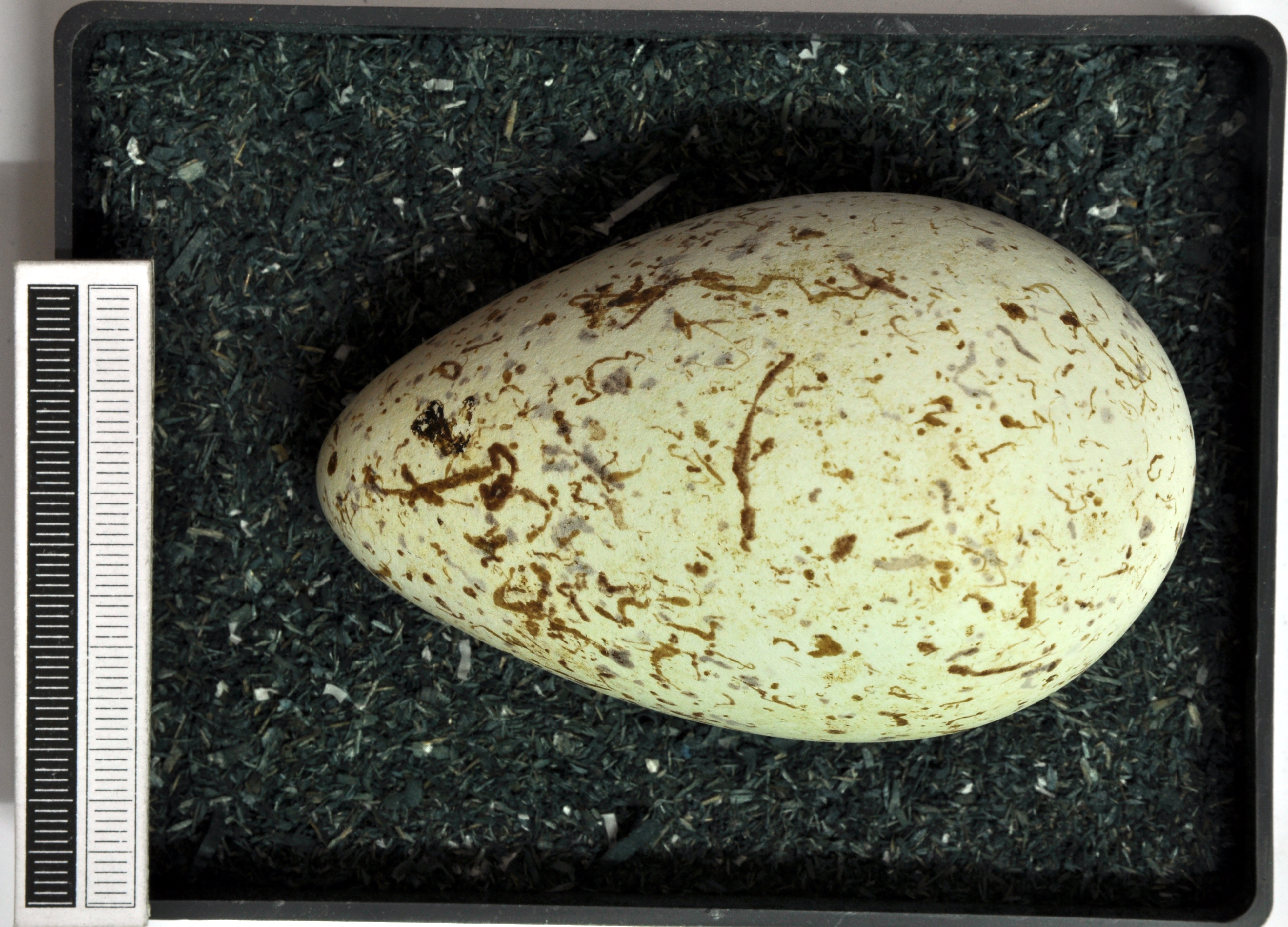 Thick-billed murre Uria lomvia, egg, Coll. Museum Wiesbaden, Origin: Spitsbergen, Norway, 20.06.1970, leg. W. Abelmann